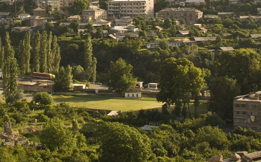 Meghri City Stadium, Meghri, Armenia.